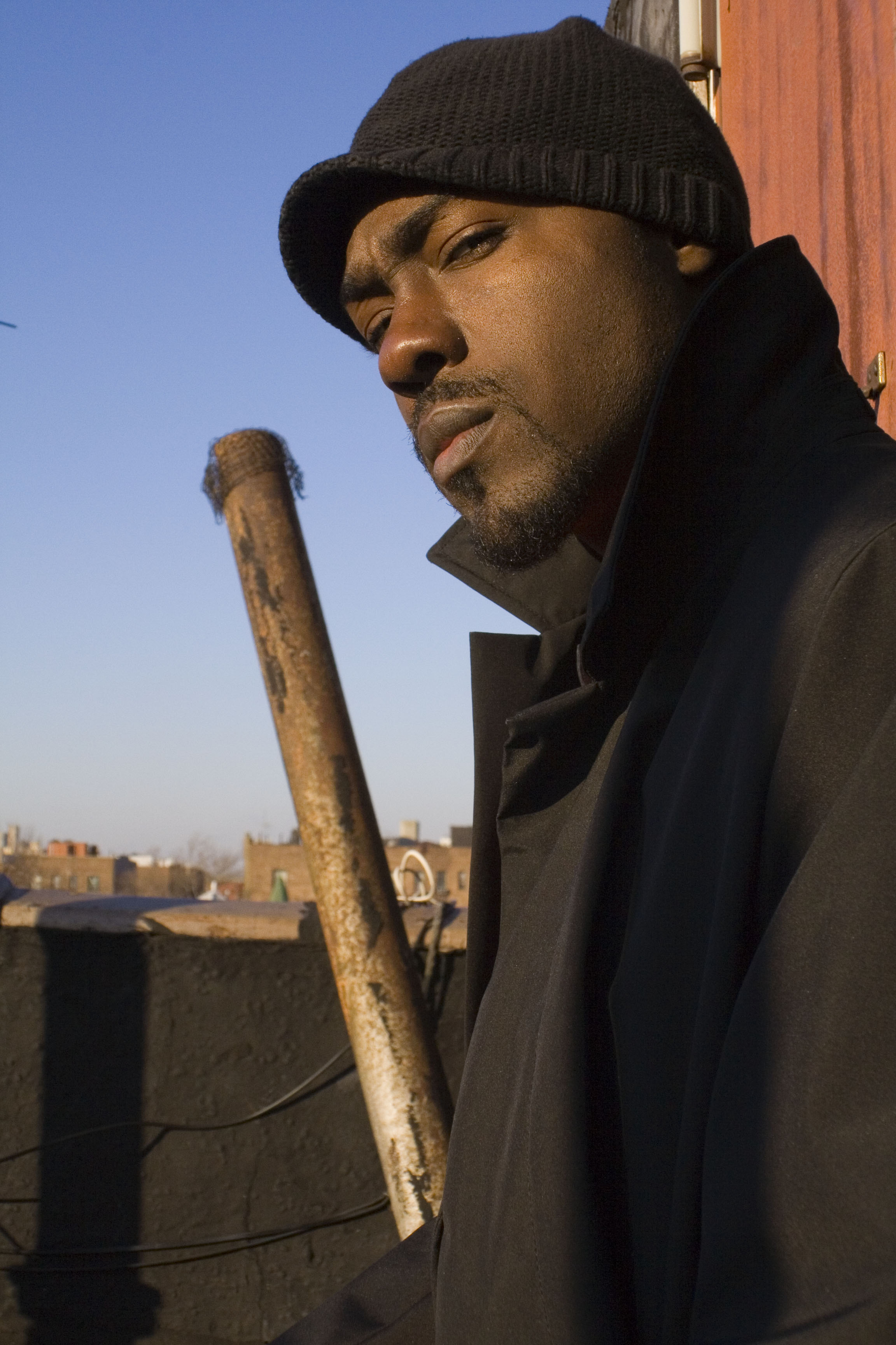 NYC headshot